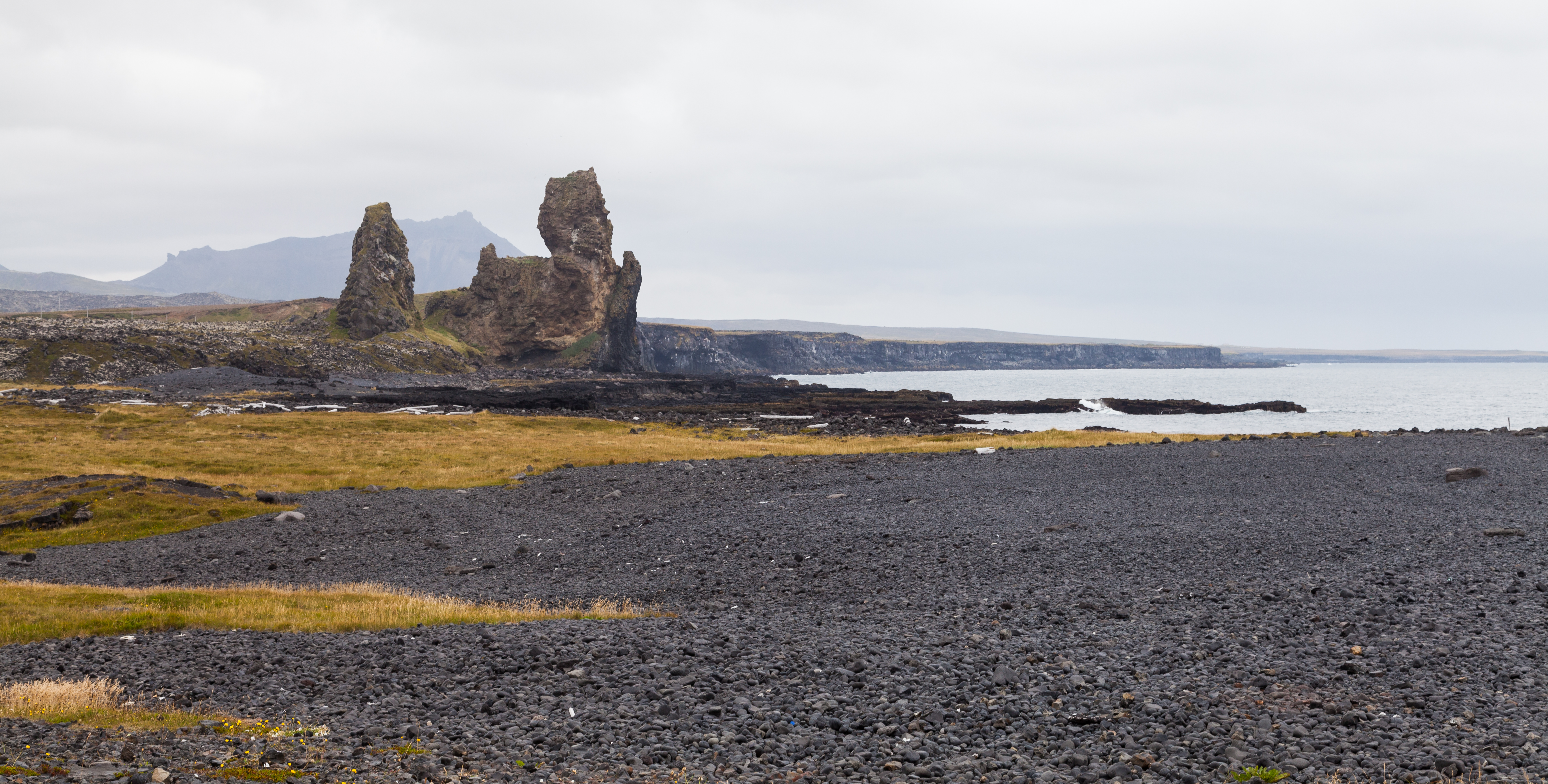 Landscape in Malarrif, Vesturland, Iceland